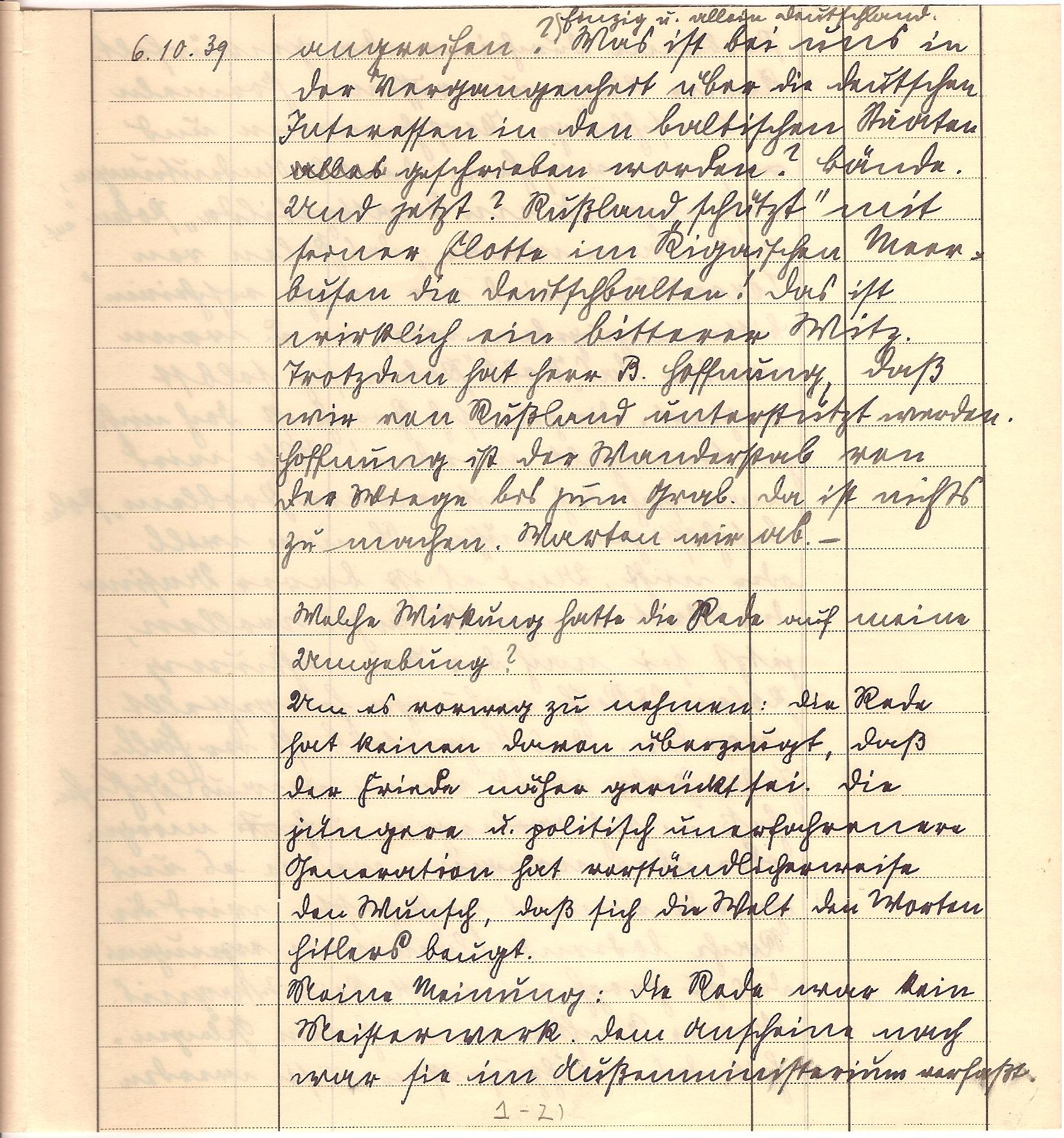 A page from the Friedrich Kellner diary. This entry of October 6, 1939 refers to the partition of Poland and warns that the Polish people will have their revenge. This entry takes up four pages in the diary. This is the third page of that entry.